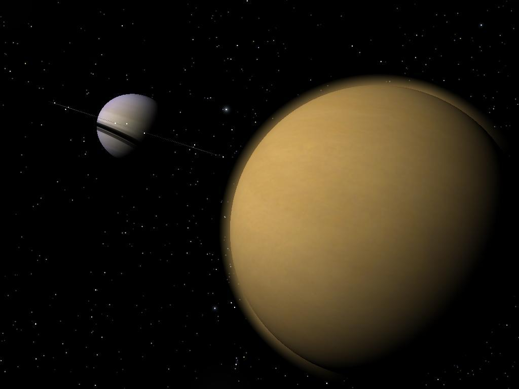 Artist view of Titan and Saturn.